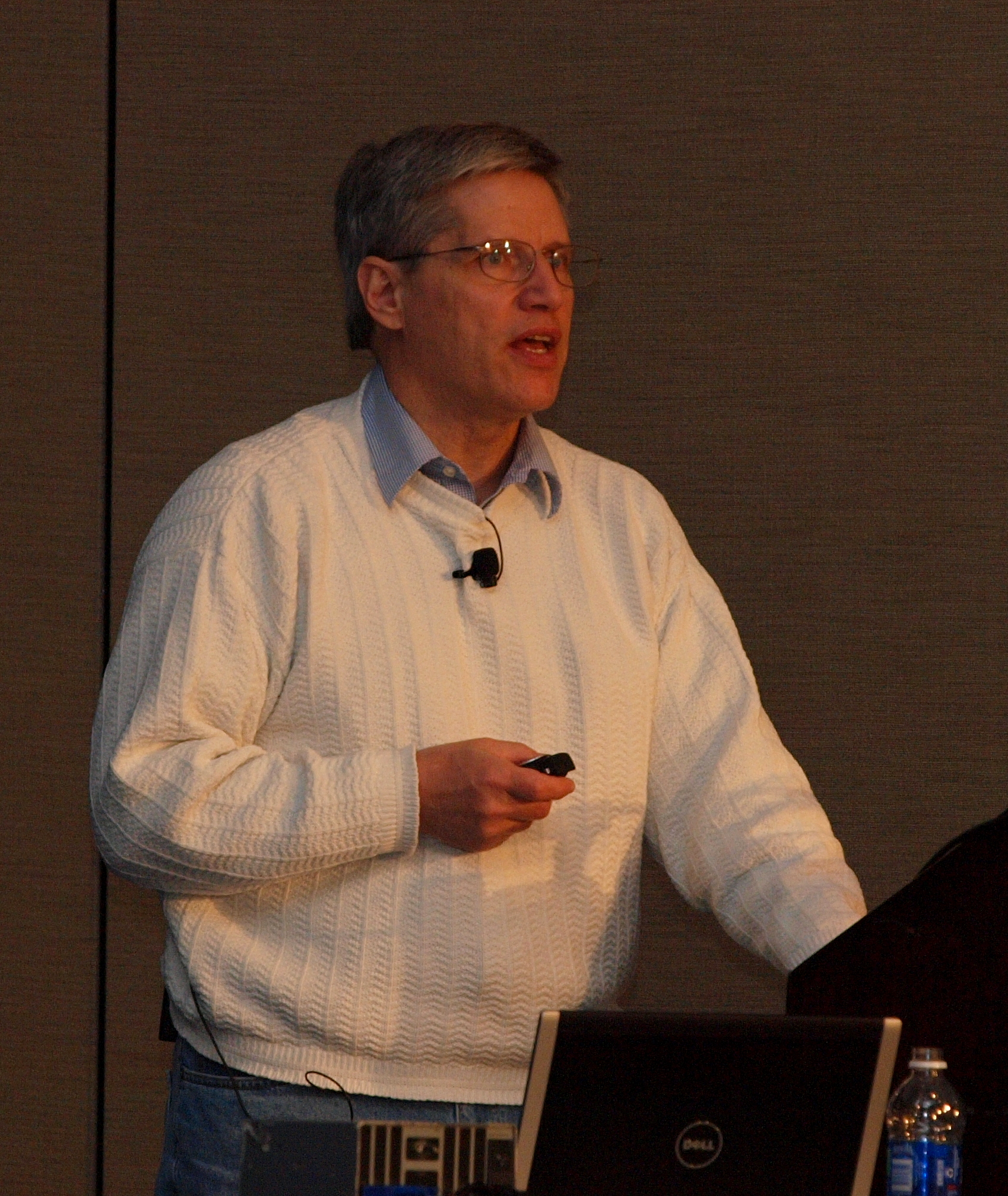 Bob Bates at the Game Developers Conference in 2010 (fifth day), speaking at "The belly of the whale: living a creative life in the game industry".